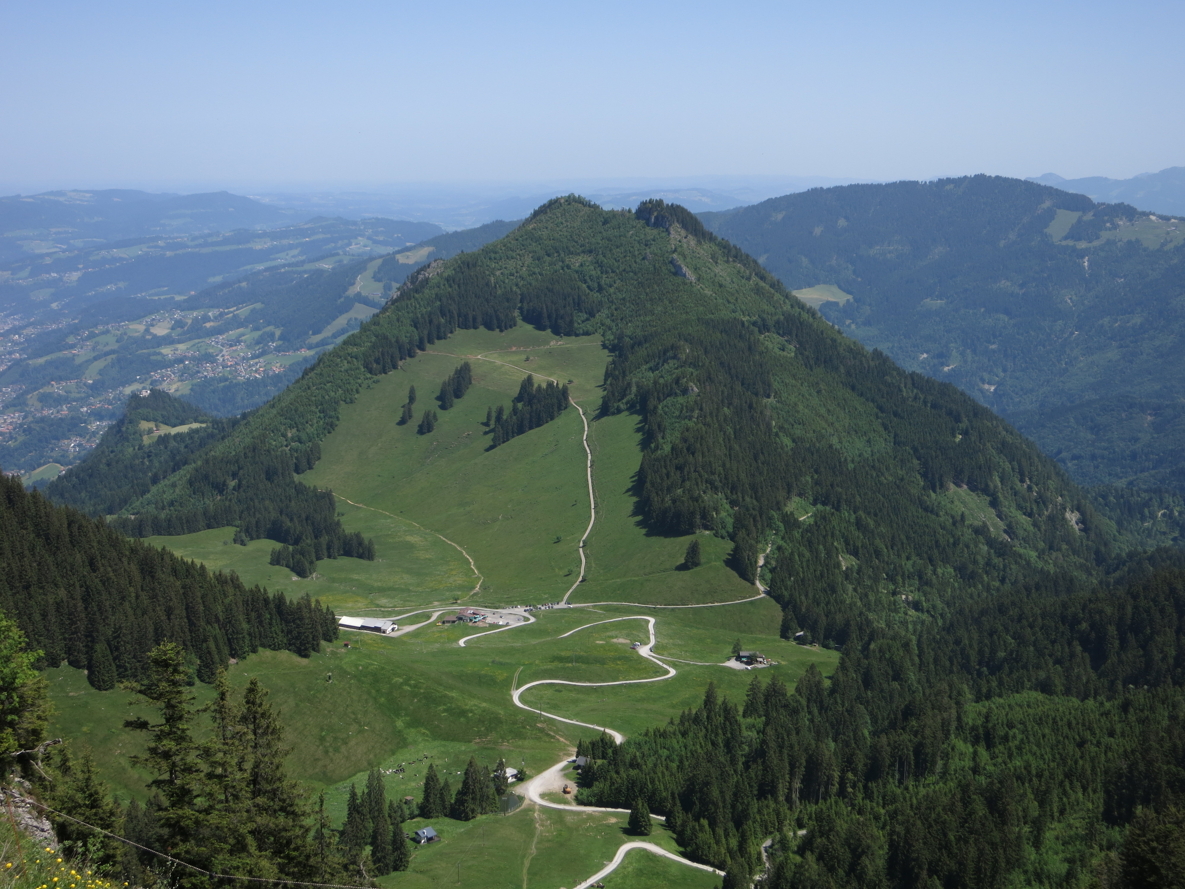 Mountain Staufen near Dornbirn, Austria